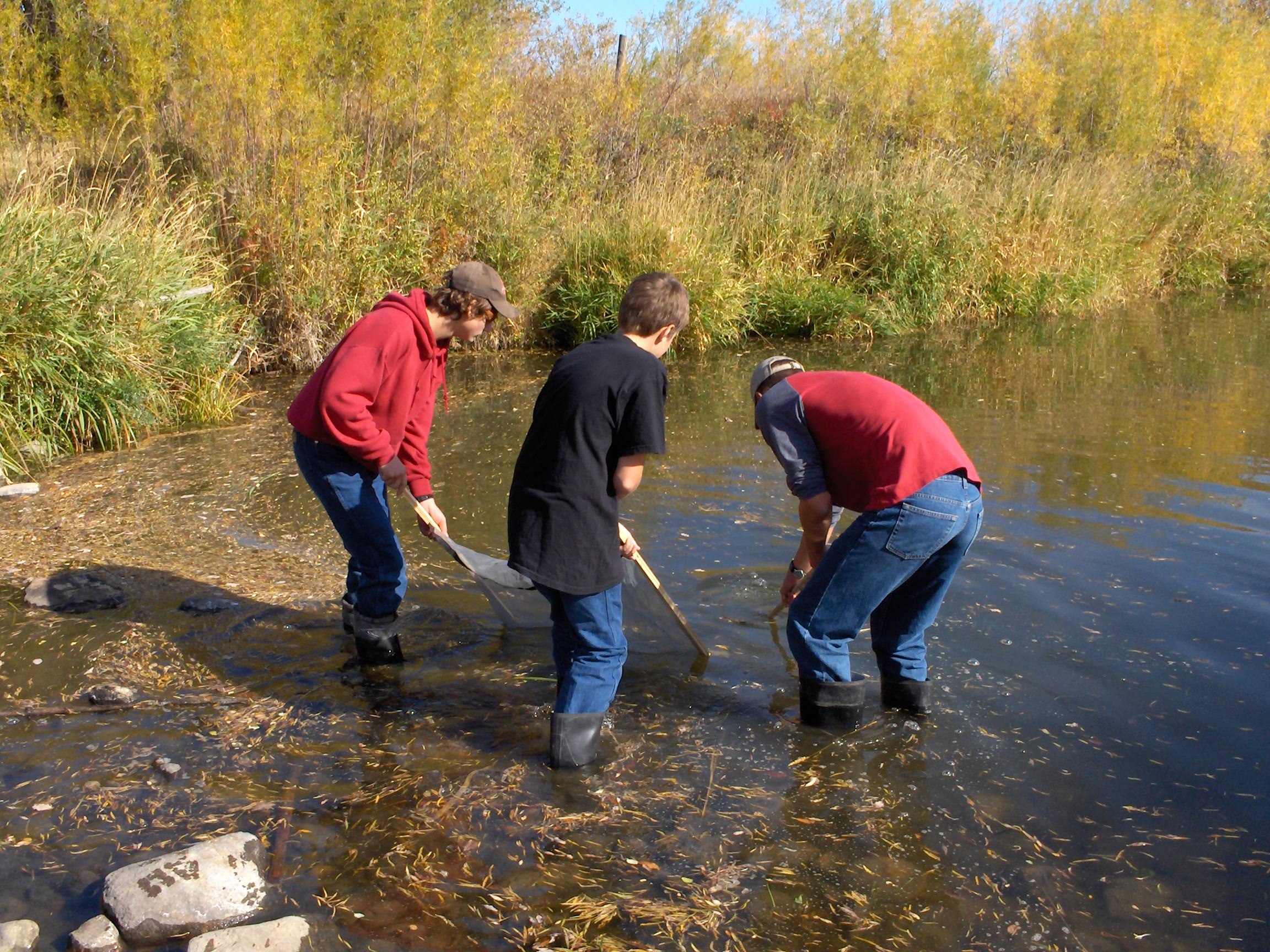 Aquatic Ecology Workshop at the Prairie Learning Centre, Grasslands National Park, Saskatchewan